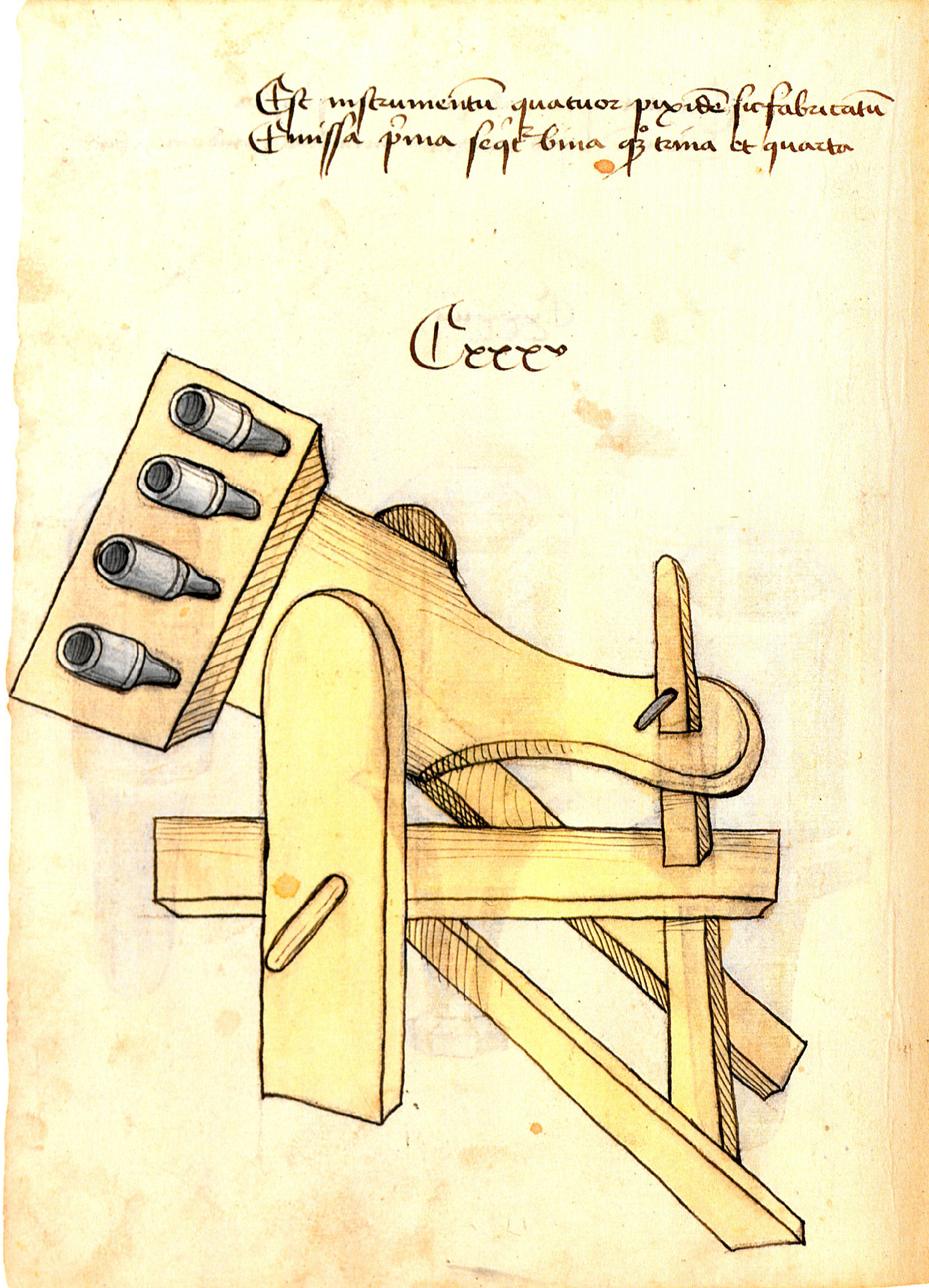 Organ gun